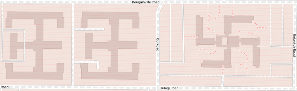 Buildings at Naval Amphibious Base Coronado, California